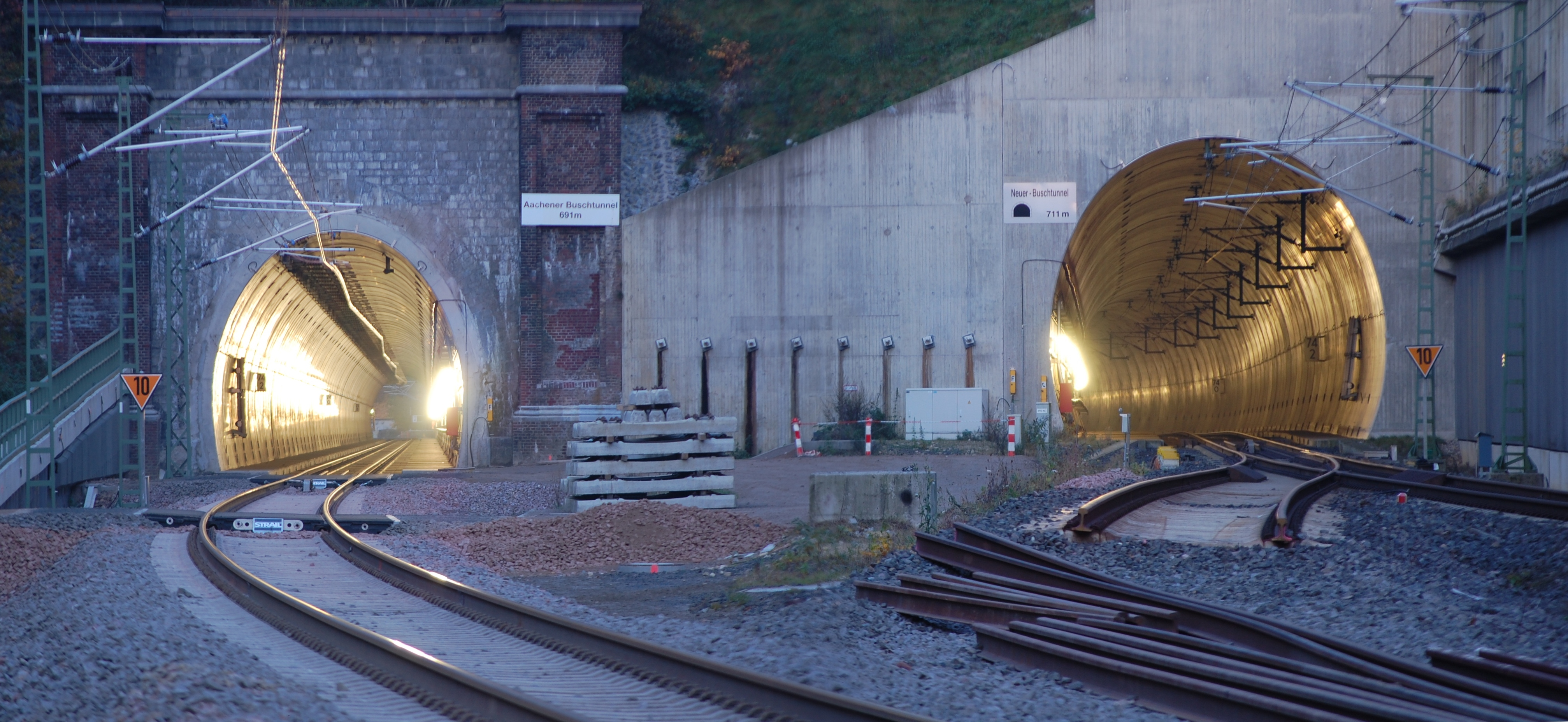 Western portal of the Buschtunnel near Aachen